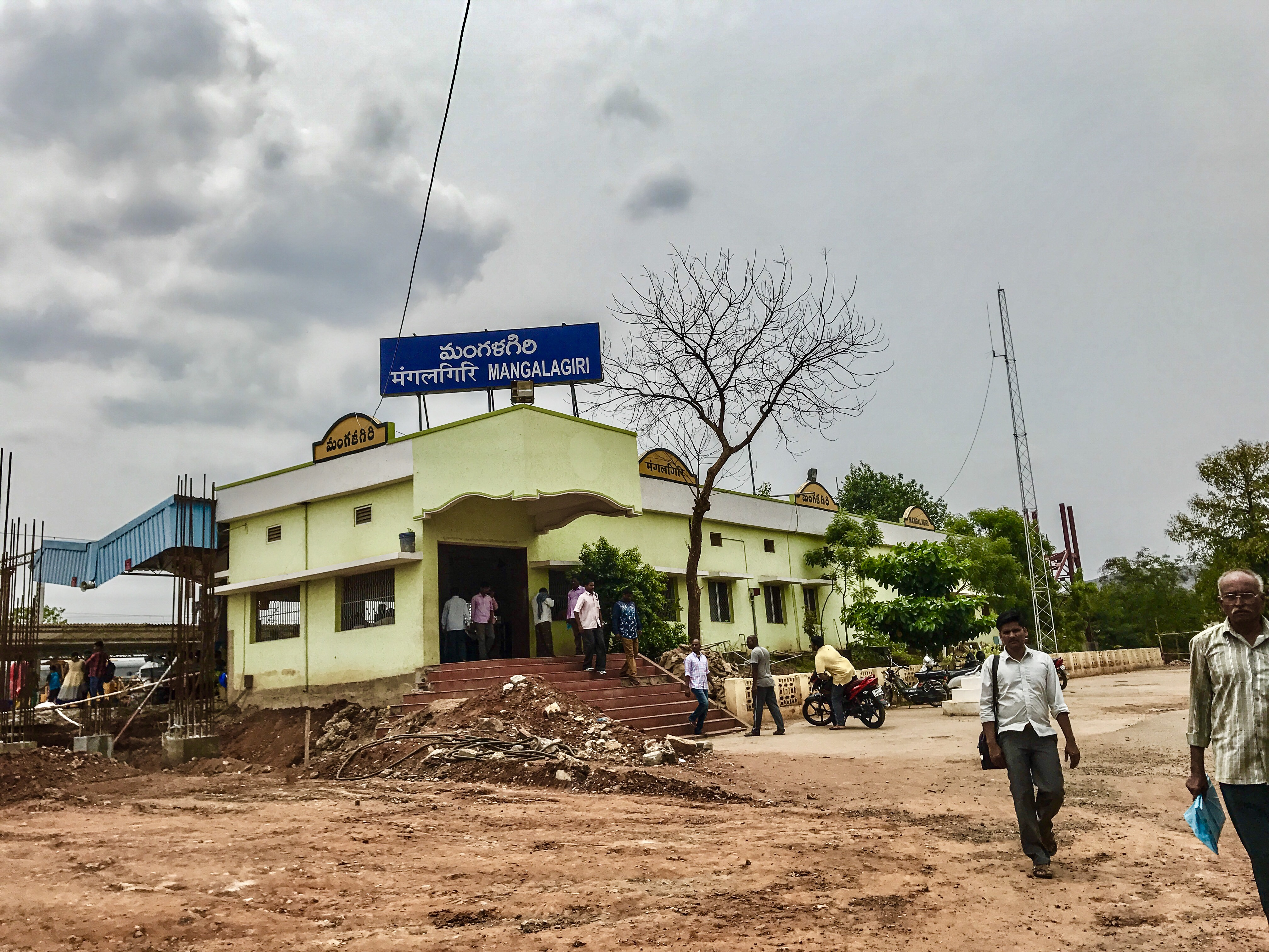 A view of Mangalagiri Railway Station